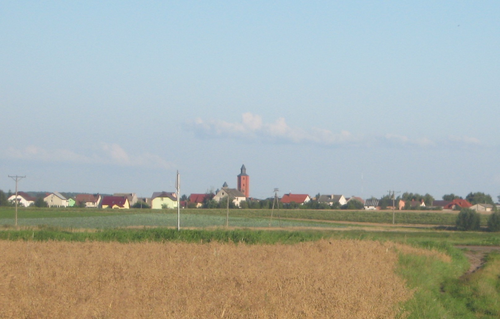 Losice, Poland